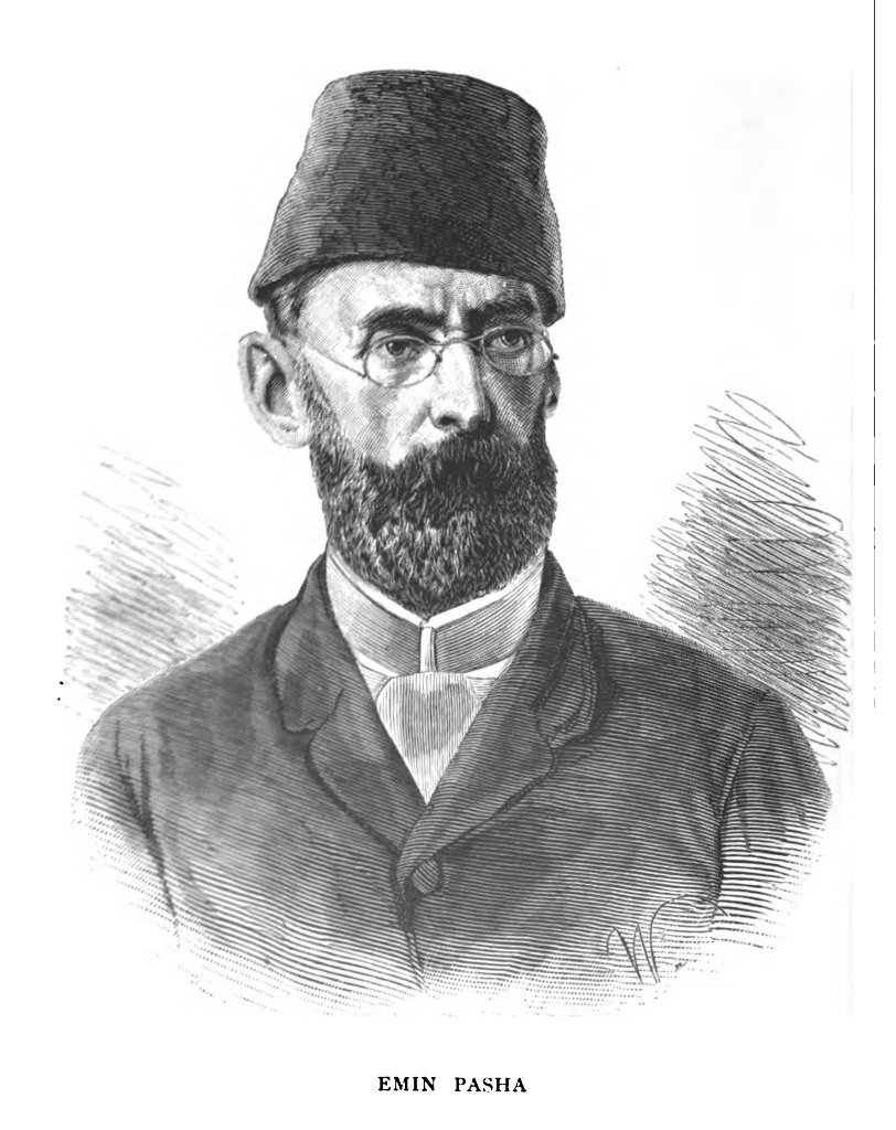 Mehmet Emin Pasha (March 28, 1840 – October 23, 1892) — he was born Isaak Eduard Schnitzer and baptized (c. 1847) Eduard Carl Oscar Theodor Schnitzer — was a physician, naturalist and governor of the Egyptian province of Equatoria on the upper Nile.